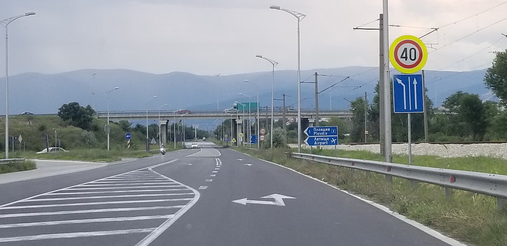 Overpass Olga Skobeleva, Plovdiv